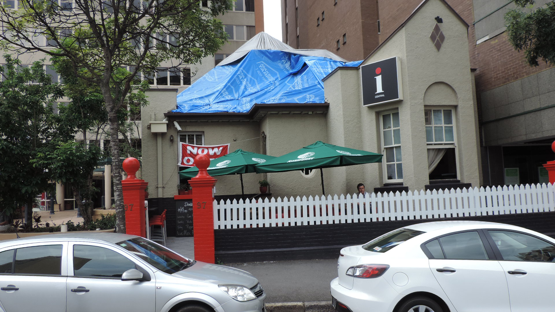 Espie Dods House, front view, following storm damage to roof, 2015